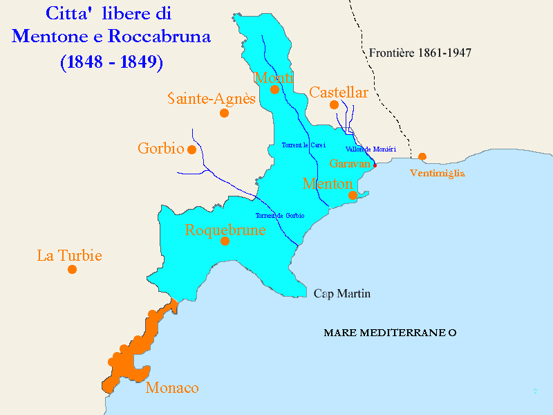 Map of the "Free cities of Mentone & Roccabruna" of the Principality of Monaco in 1848-1849. (Mappa delle Citta' libere di Mentona e Roccabruna nel 1848-1849). Map done with my computer software.